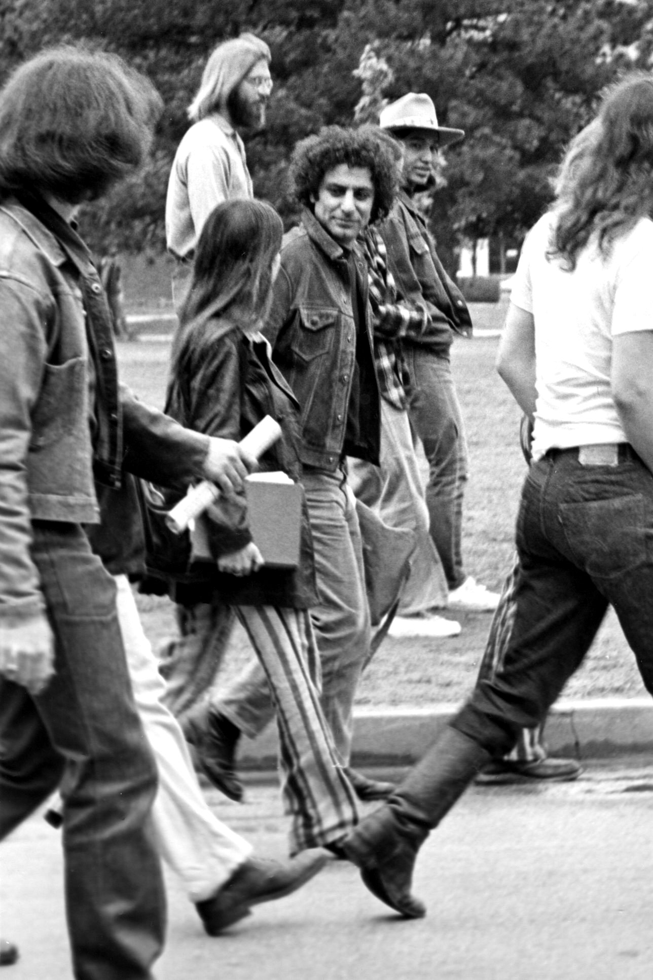 Abbie Hoffman visiting the University of Oklahoma to protest the Vietnam War